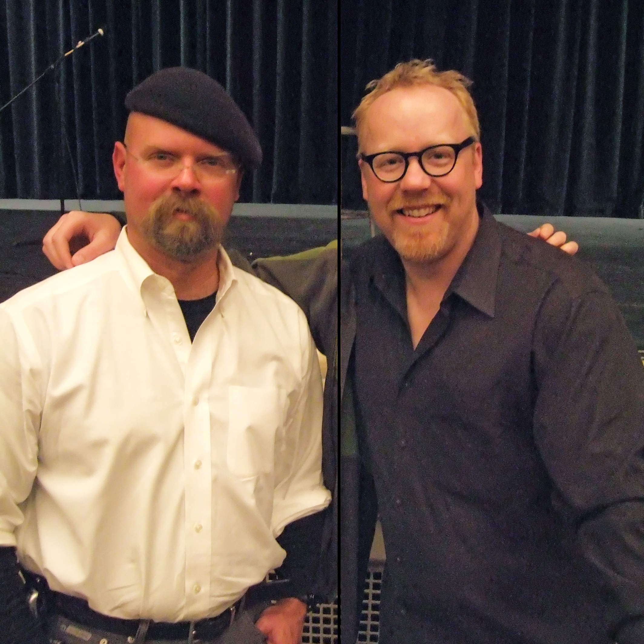 Jamie Hyneman & Adam Savage, from the TV program Mythbusters (photomontage)